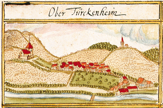 View of Obertürkheim from the forest register books created by Andreas Kieser